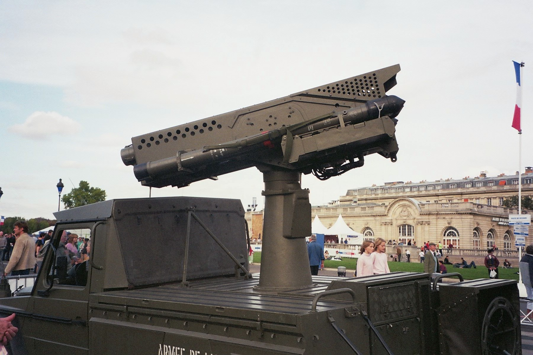 Mistral anti-aricraft weapon system, Nation/Defense days, Esplanade des Invalides, Paris, France, September 24-25, 2005